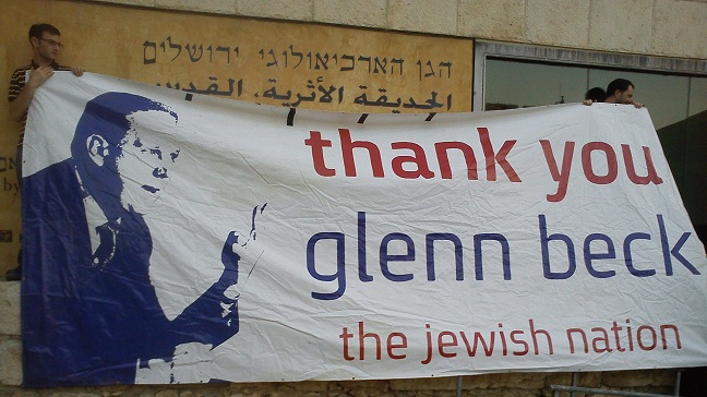 Civilians waving a sign supporting Glenn Beck outside the "Restoring Courage" event at keshet Davidson Center in Jerusalem